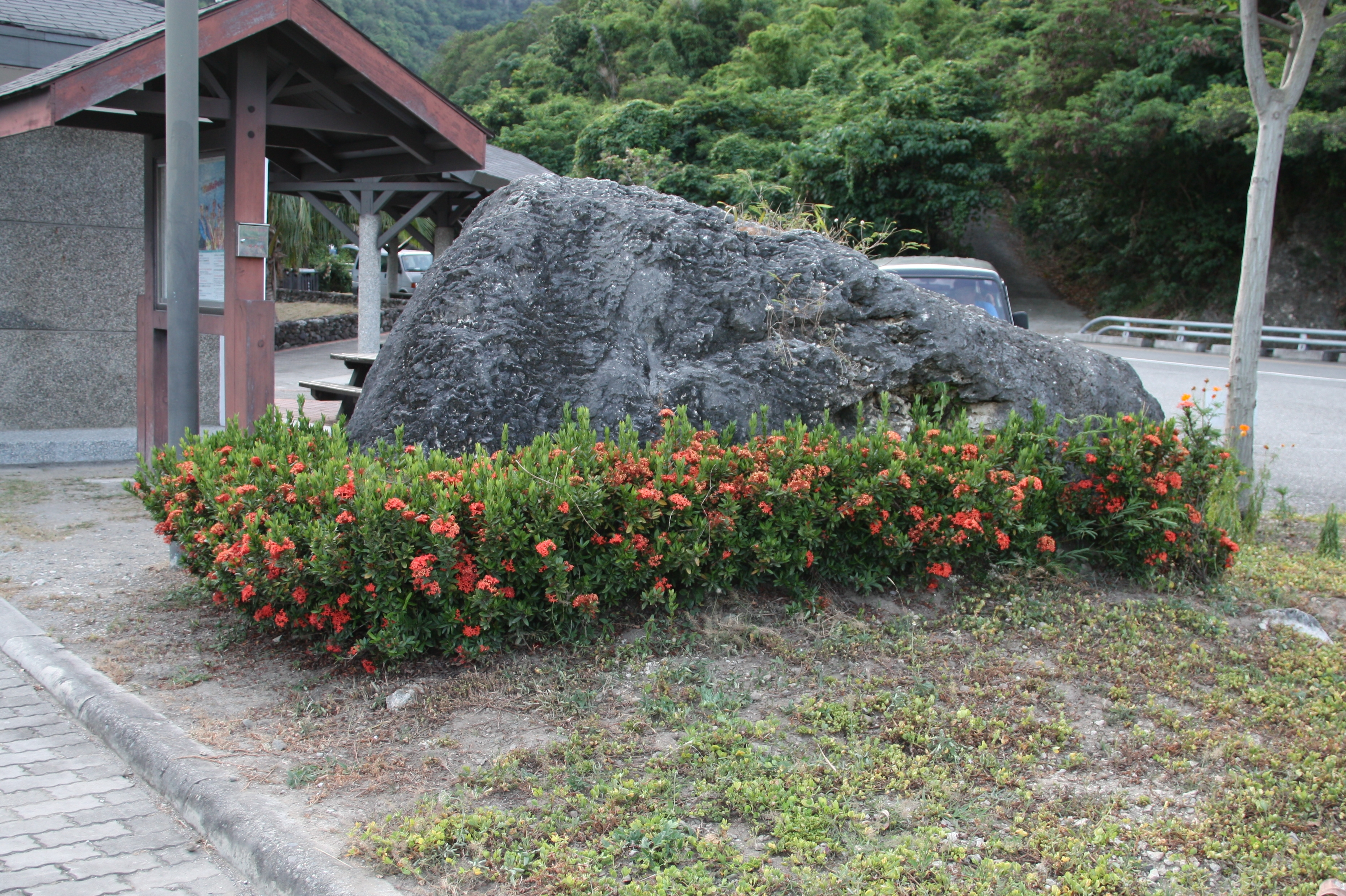 Taitung County DōngHé Township DōngHé bridge scenic spot Ixora chinensis